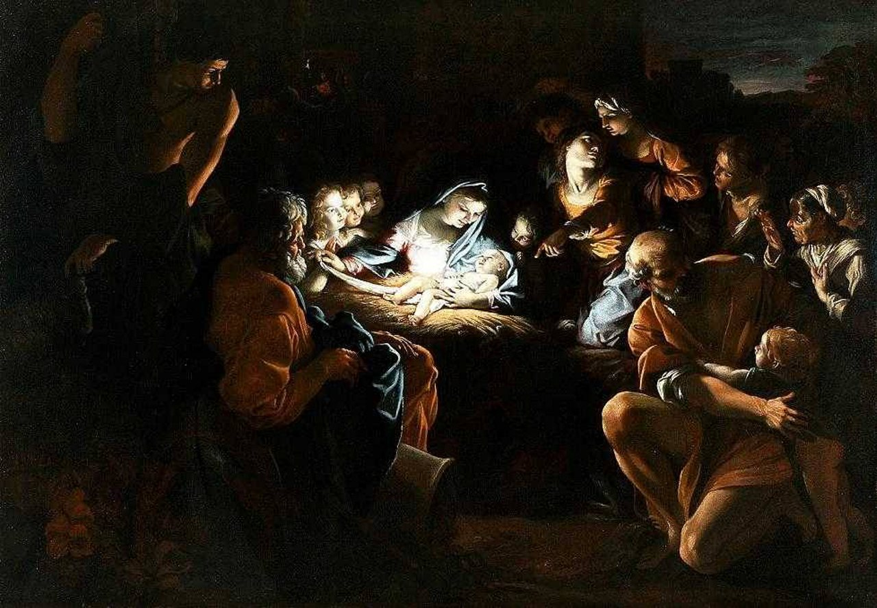 The Adoration of the Shepherds (The Night)